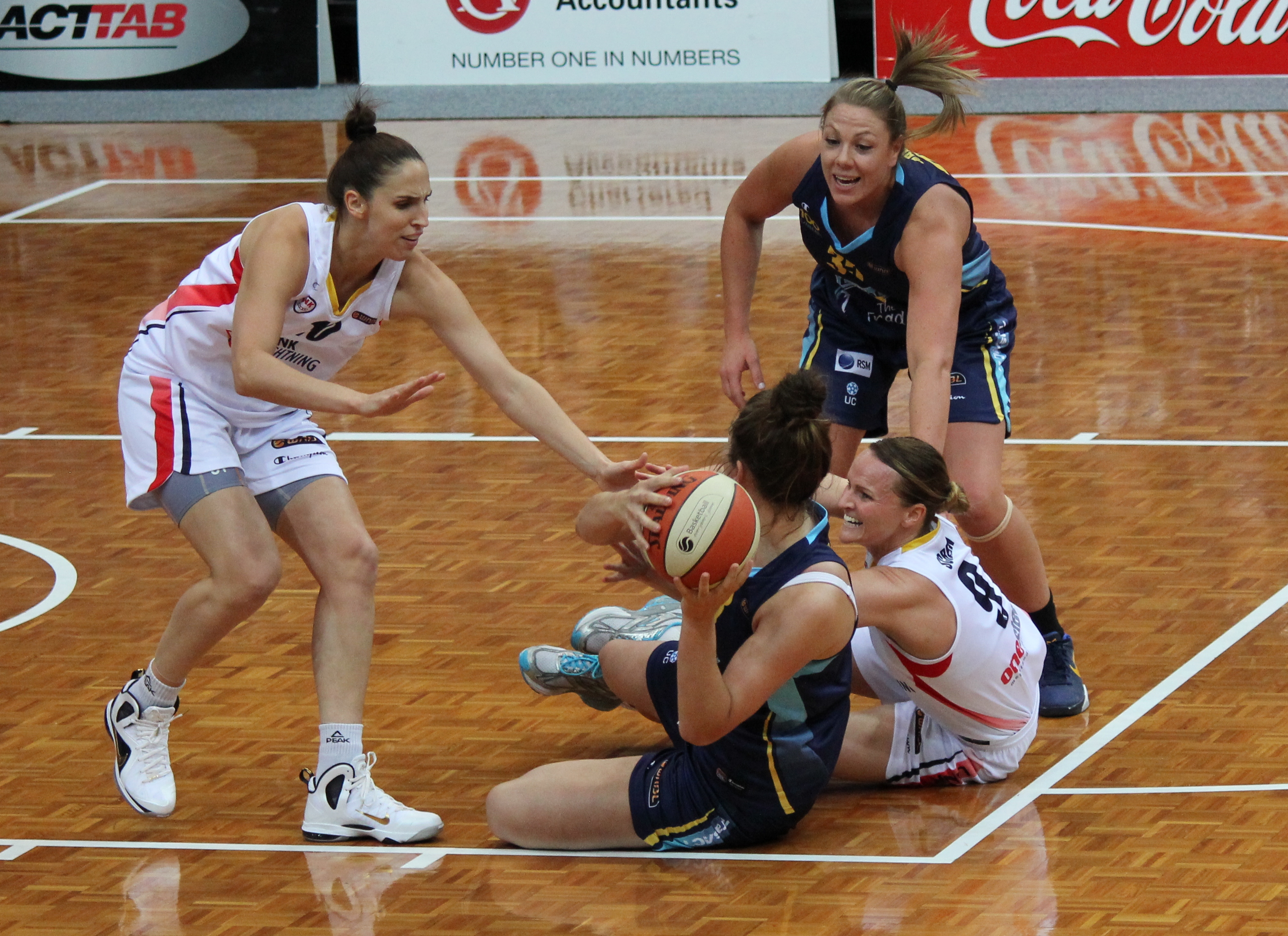 Canberra Capitals versus the Adelaide Lighting on 9 November 2012 at AIS Arena.